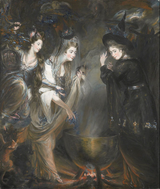 The Three Witches from Shakespeares Macbeth by Daniel Gardner, 1775. © National Portrait Gallery, London Georgiana, Duchess of Devonshire and Elizabeth Lamb, Viscountess Melbourne – the most famous political hostesses and society beauties of their day – are shown gathered around the witches’ cauldron alongside their friend, the sculptor Anne Seymour Damer.